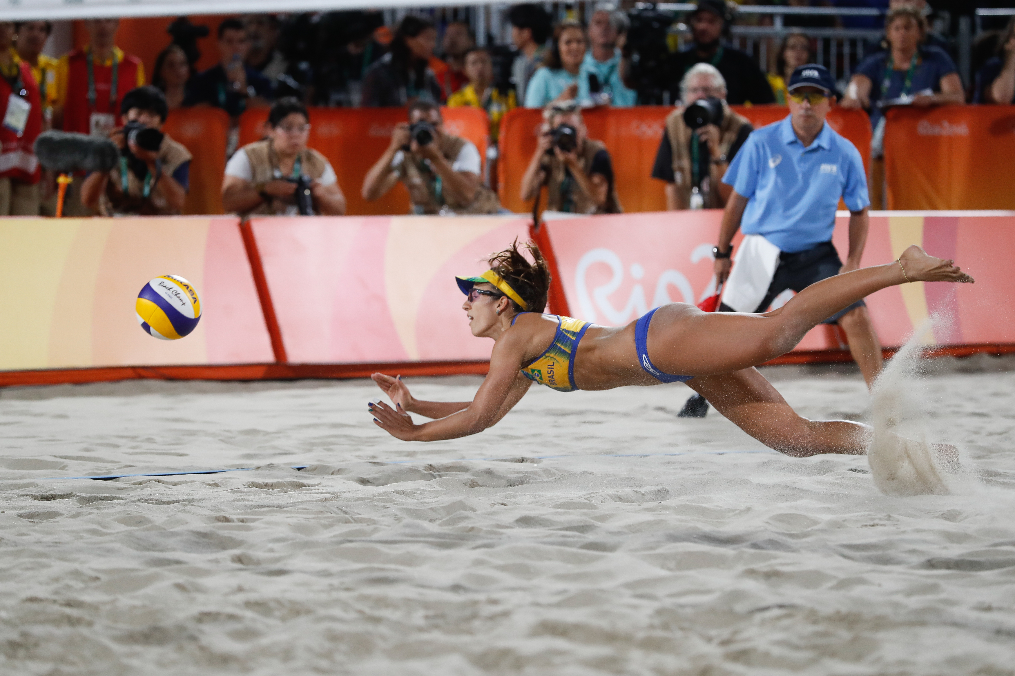 Rio de Janeiro - Dupla de vôlei de praia doBrasil Ágatha e Bárbara disputa final contra alemãs Ludwig e Walkenhorst nos Jogos Olímpicos Rio 2016, em Copacabana ( Fernando Frazão/Agência Brasil)